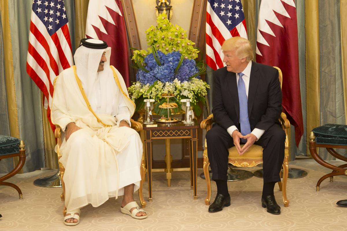 President Donald Trump meets with the Emir of Qatar during their bilateral meeting, Sunday, May 21, 2017, at the Ritz-Carlton Hotel in Riyadh, Saudi Arabia. (Official White House Photo by Shealah Craighead)